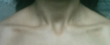 Author